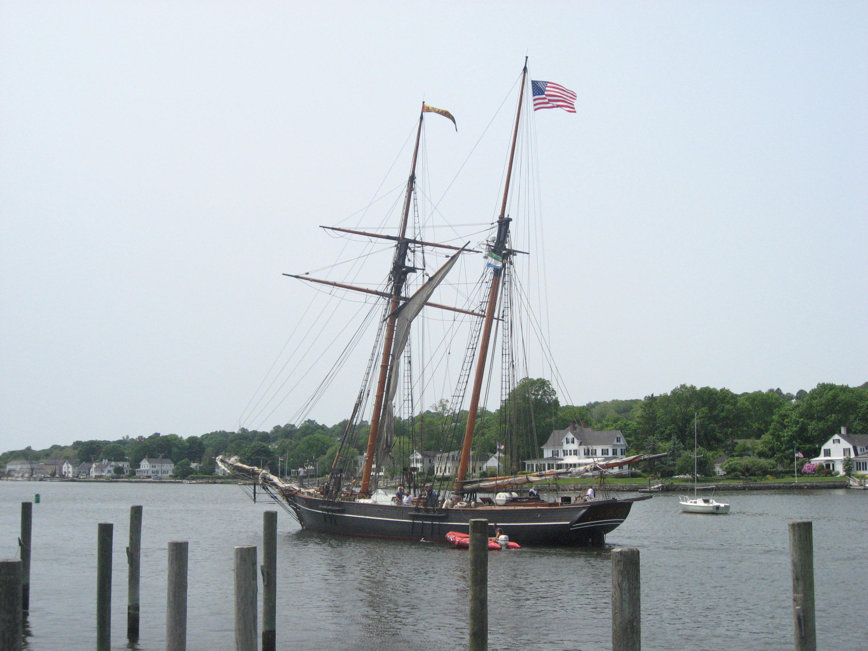 Type:Baltimore Clipper. Rig: Schooner 2000 Built by Mystic Seaport Museum, USA Rail length 85.1 ft. Length on deck 80.7 ft Length waterline 77.8 ft Beam 22.9 ft Draft 10.1 ft Displacement:136 L tons.